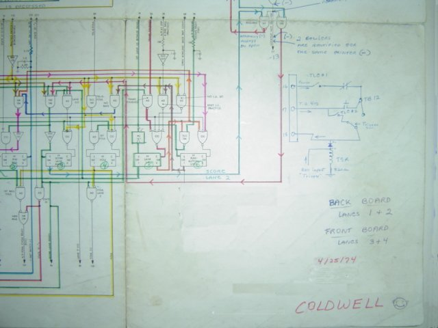 Brunswick's Automatic Scorer logic board #1 diagram I made in 1974